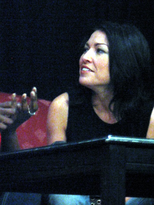 Liz May Brice